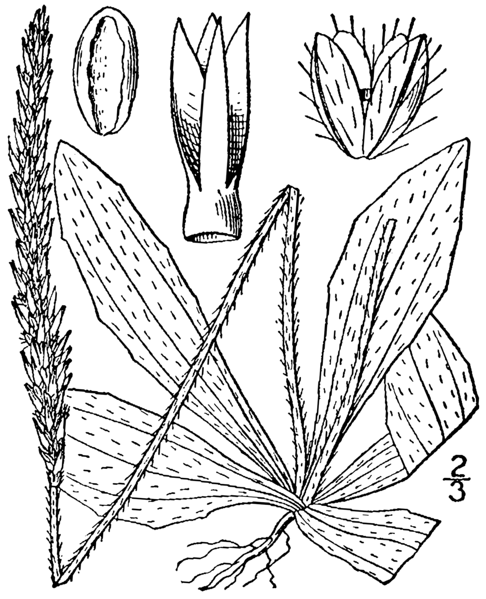 Plantago virginica L. - Virginia plantain